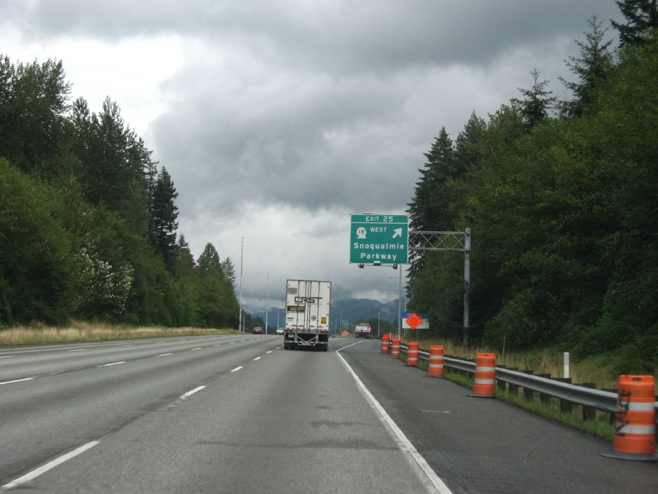 Interstate 90 eastbound at the eastern terminus of Washington State Route 18, an interchange located near Snoqualmie and North Bend